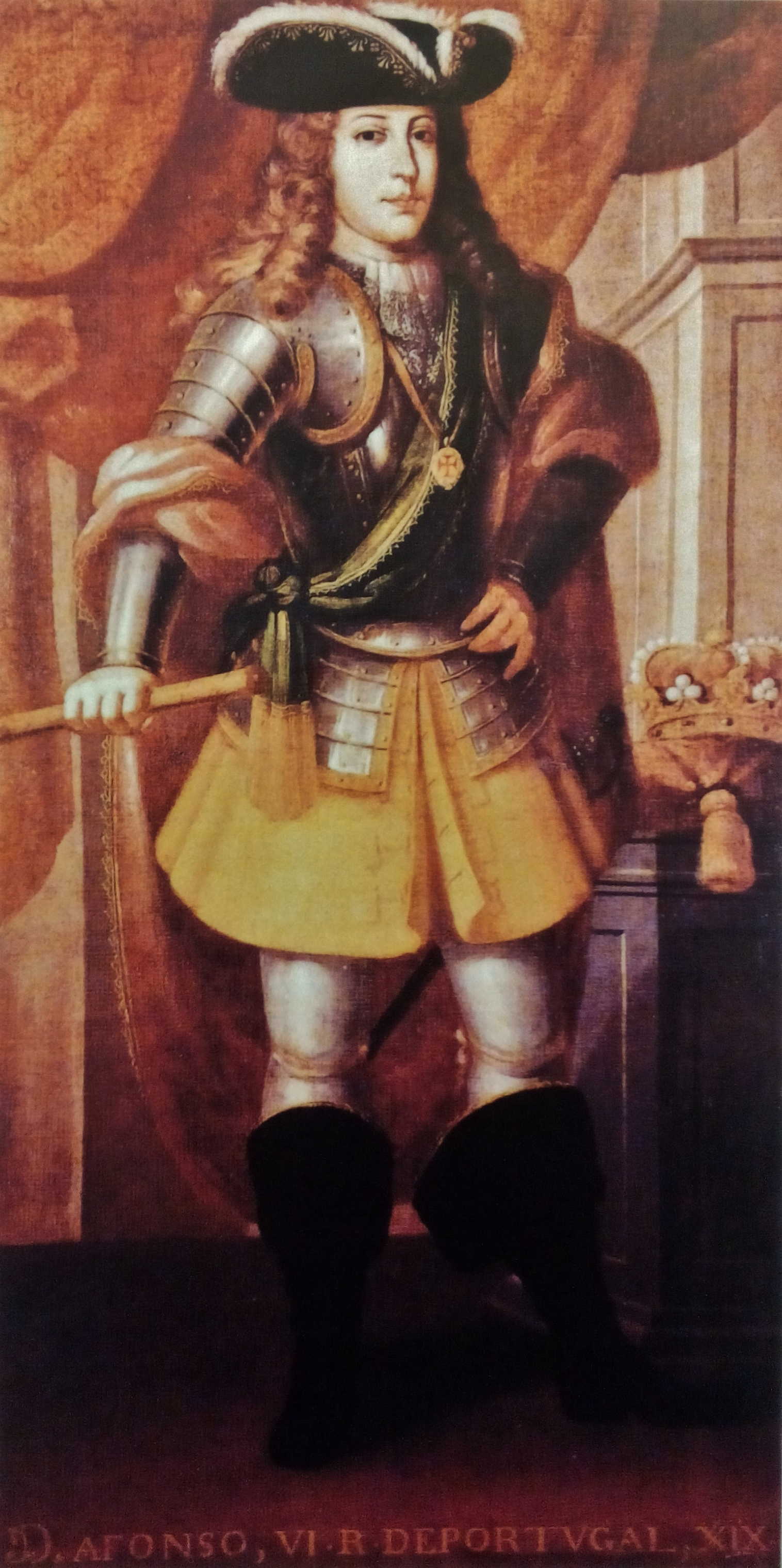 King Afonso VI of Portugal (1643-1686), in a 1718 painting by Henrique Ferreira.